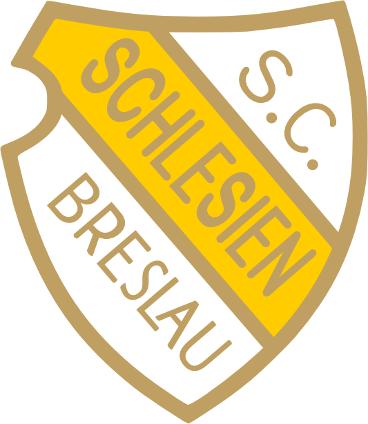 Logo of SC Schlesien 1901 Breslau, German football team.